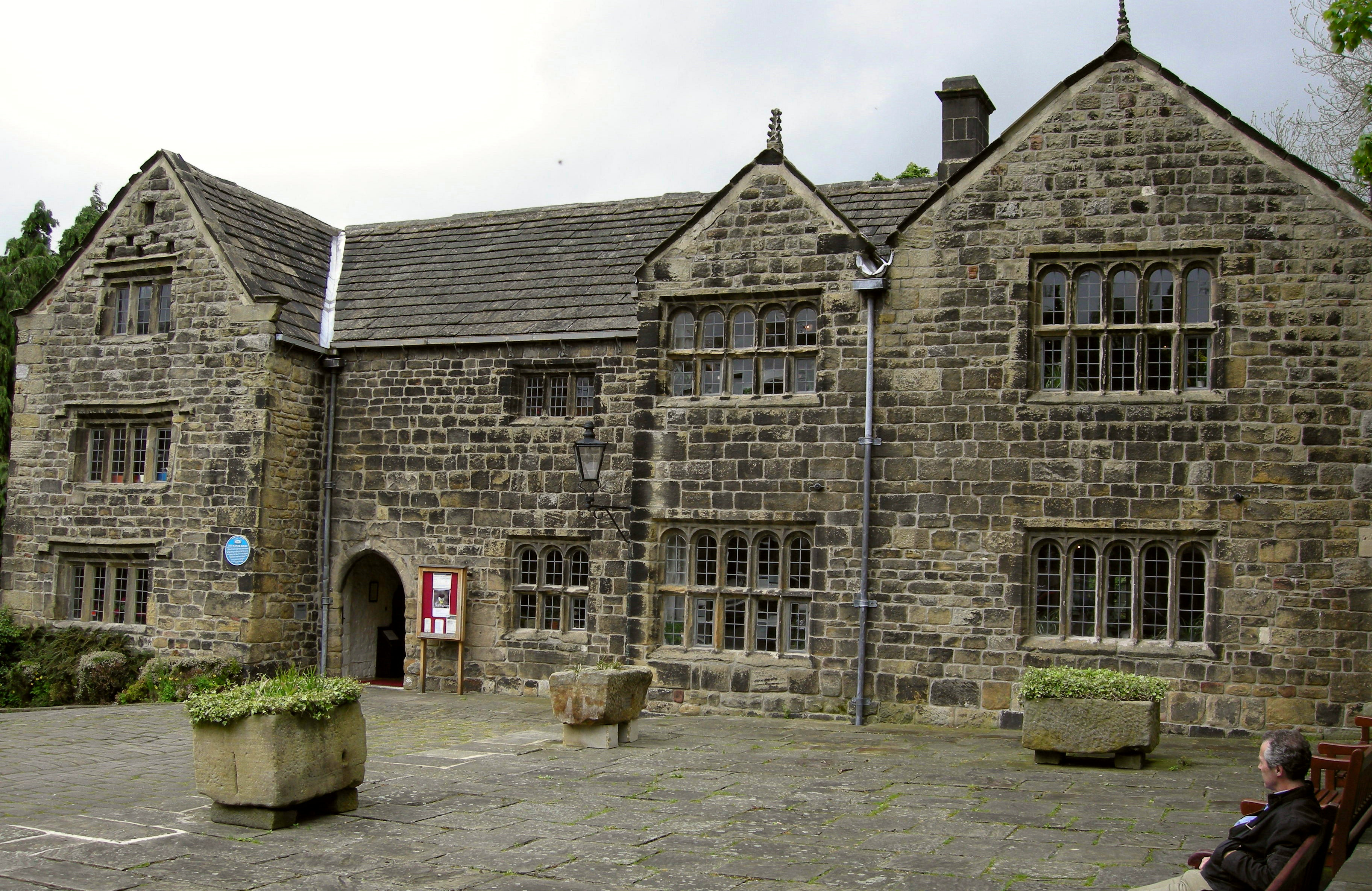 Manor House Museum, Ilkley, West Yorkshire, England